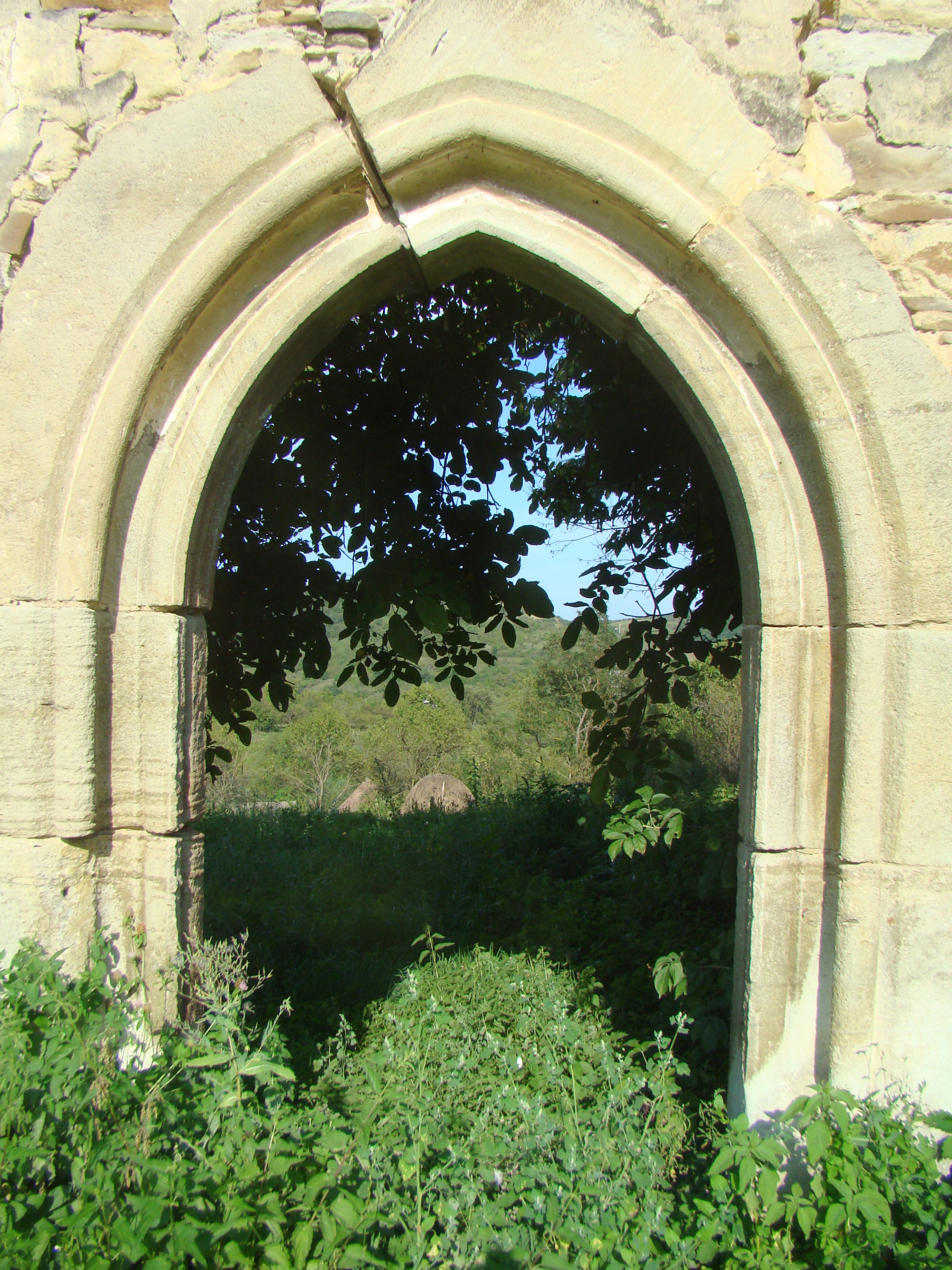 Lutheran church in Moruț, Bistrița-Năsăud county, Romania